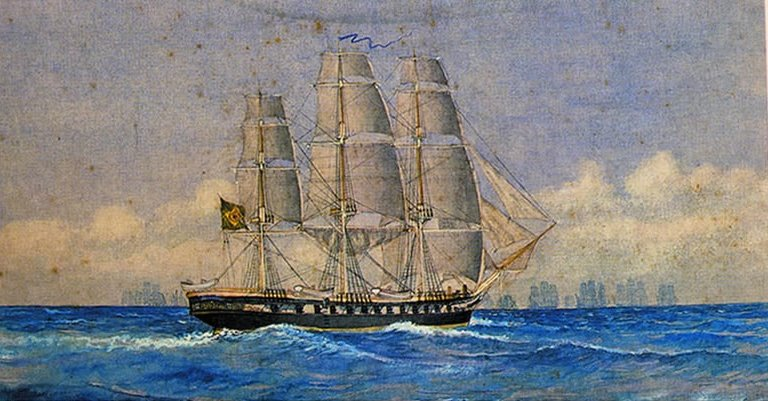 Frigate Nictheroy